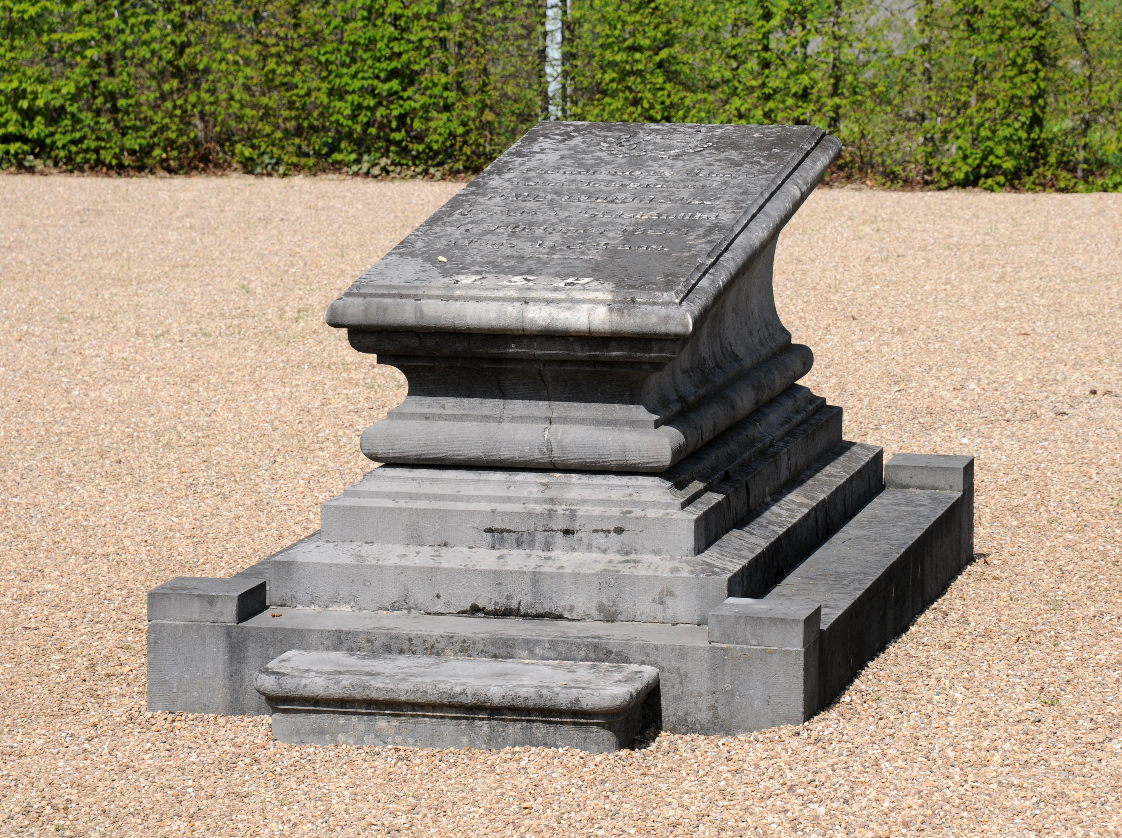 Cemetery of Hamm, Luxembourg: Memorial Paul Godchaux, the first mayor of Hamm. This photograph was taken with a Nikon D300. This raster graphics image was created with Picasa